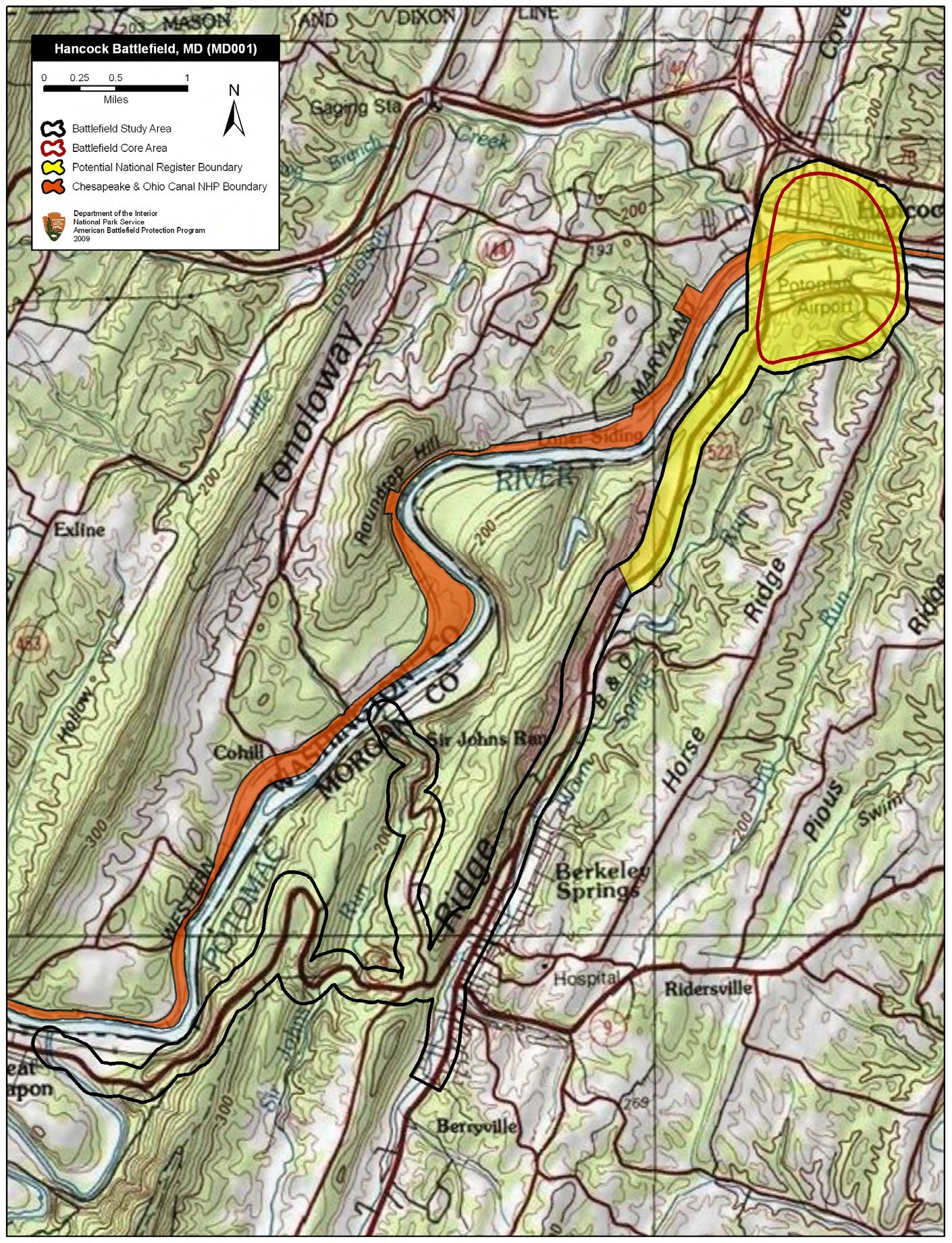 Map of battlefield core and study areas. The revised boundary includes the Confederate route north toward the garrison at Hancock, the Confederate artillery position on Orrick’s Hill, area of bombardment, and the Confederate route of withdrawal.